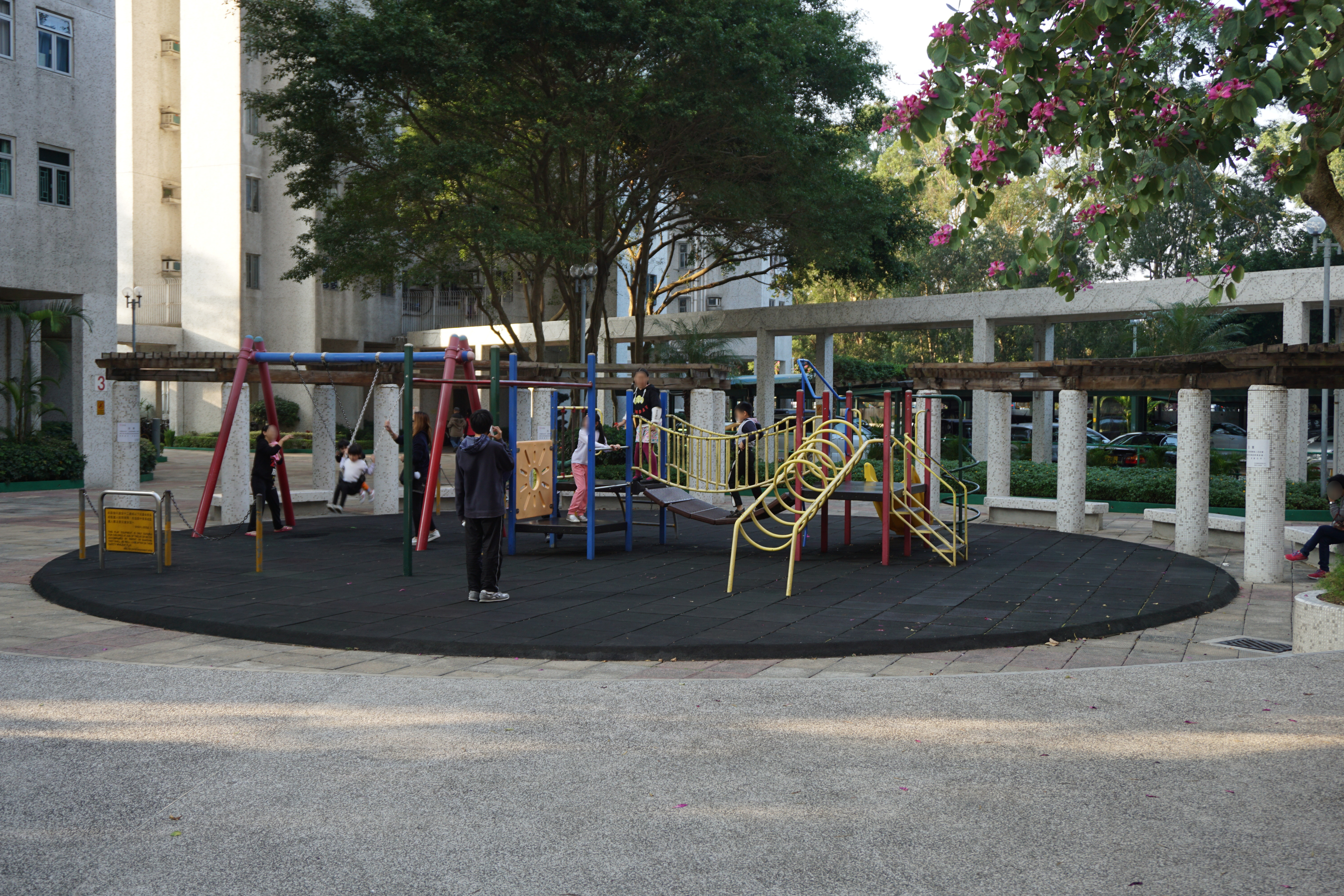 Wing Fok Centre in Luen Wo Hui, Hong Kong.